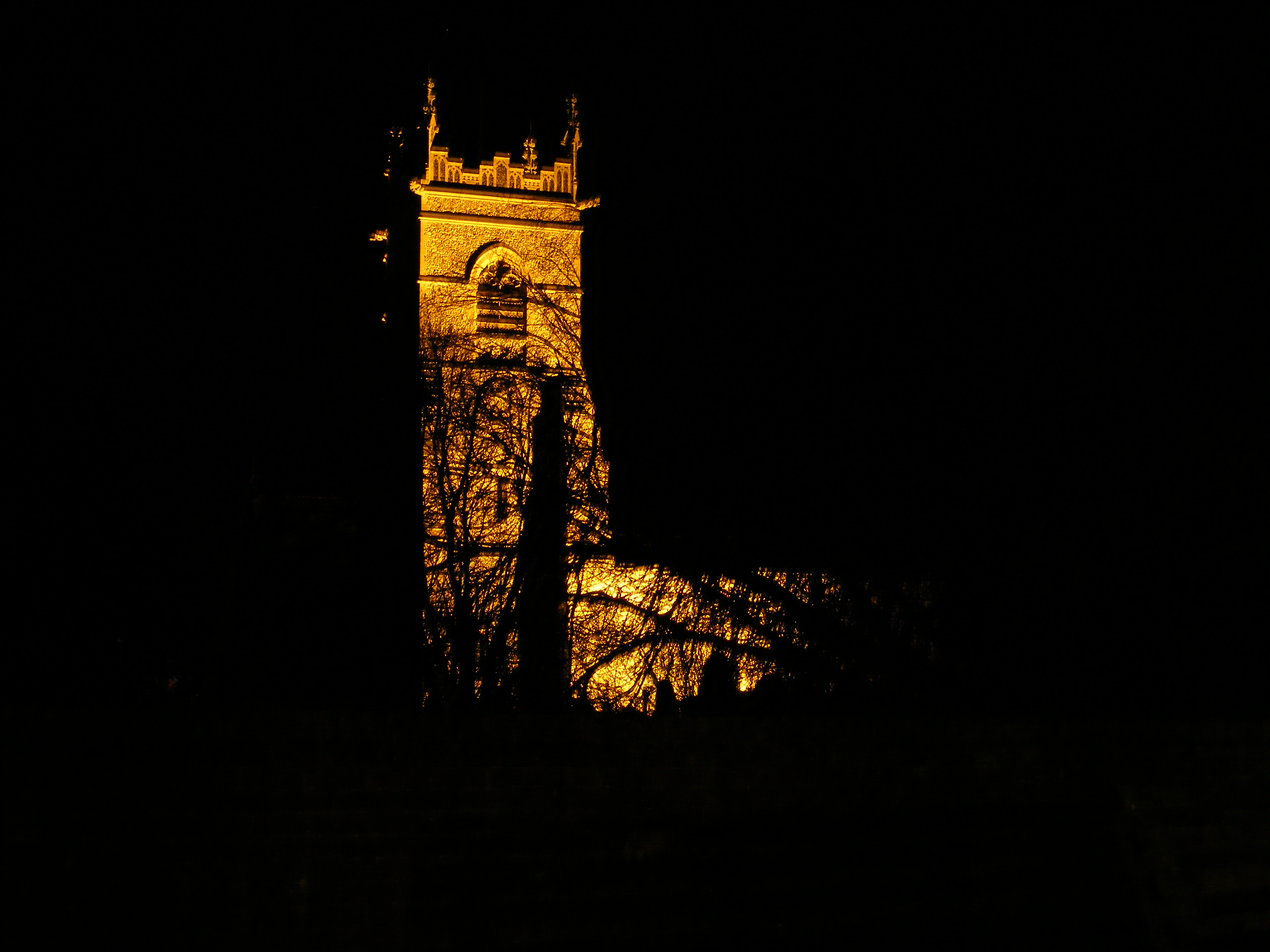 Floodlit west tower of the parish church of SS Peter and Paul, Wangford, Suffolk, at night